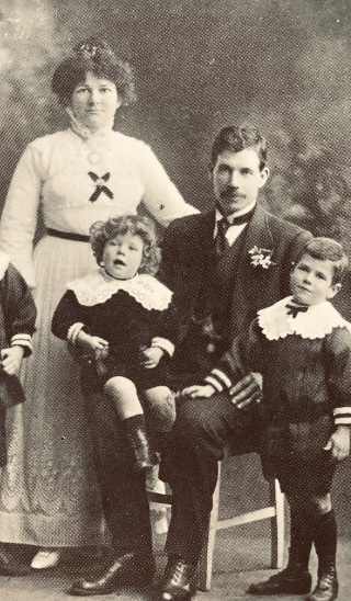 Australian painter Sam Byrne and wife Florence Byrne with their children